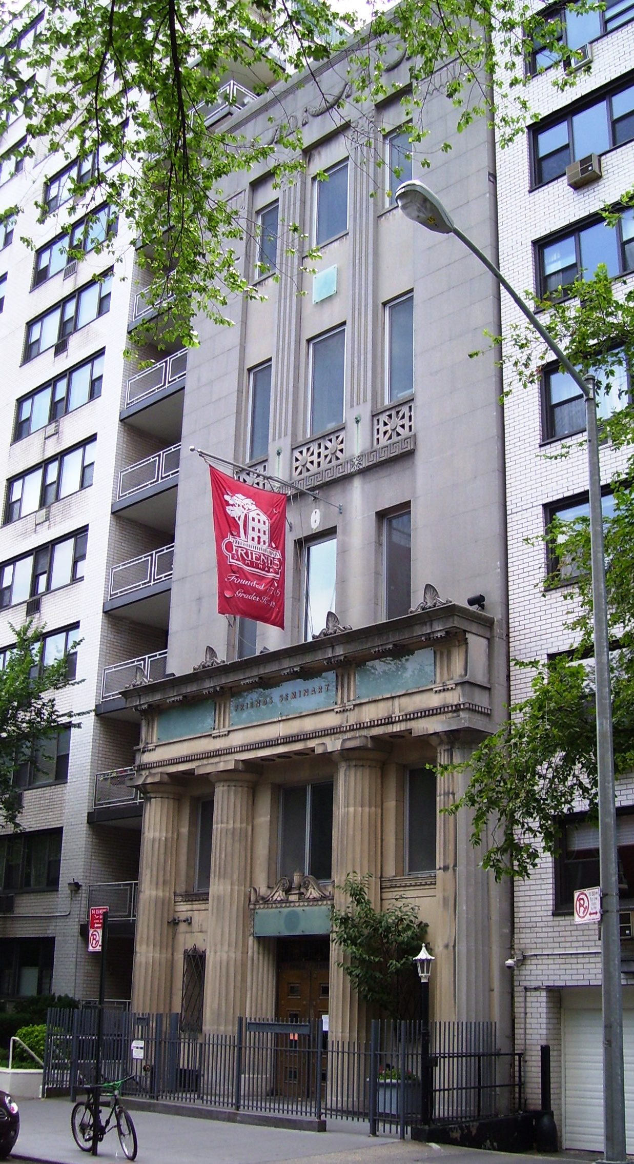 Friends Seminary building at 220 East 15th Street near Stuyvesant Square in Manhattan, New York City; formerly the German Masonic Temple (per description in WPA Guide to NYC p.189)